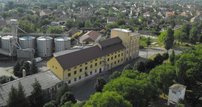 Mill of Makó, Hungary, birds eye view.